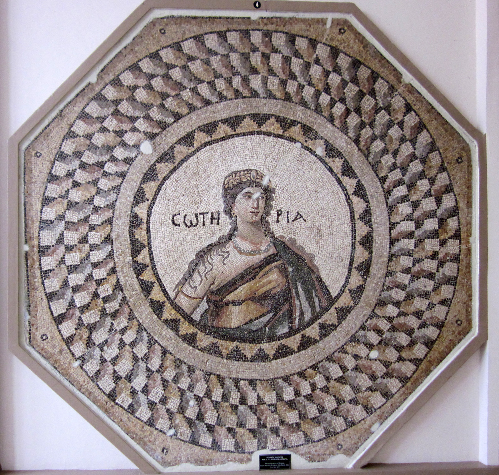 Photograph from Antakya Archaeological Museum